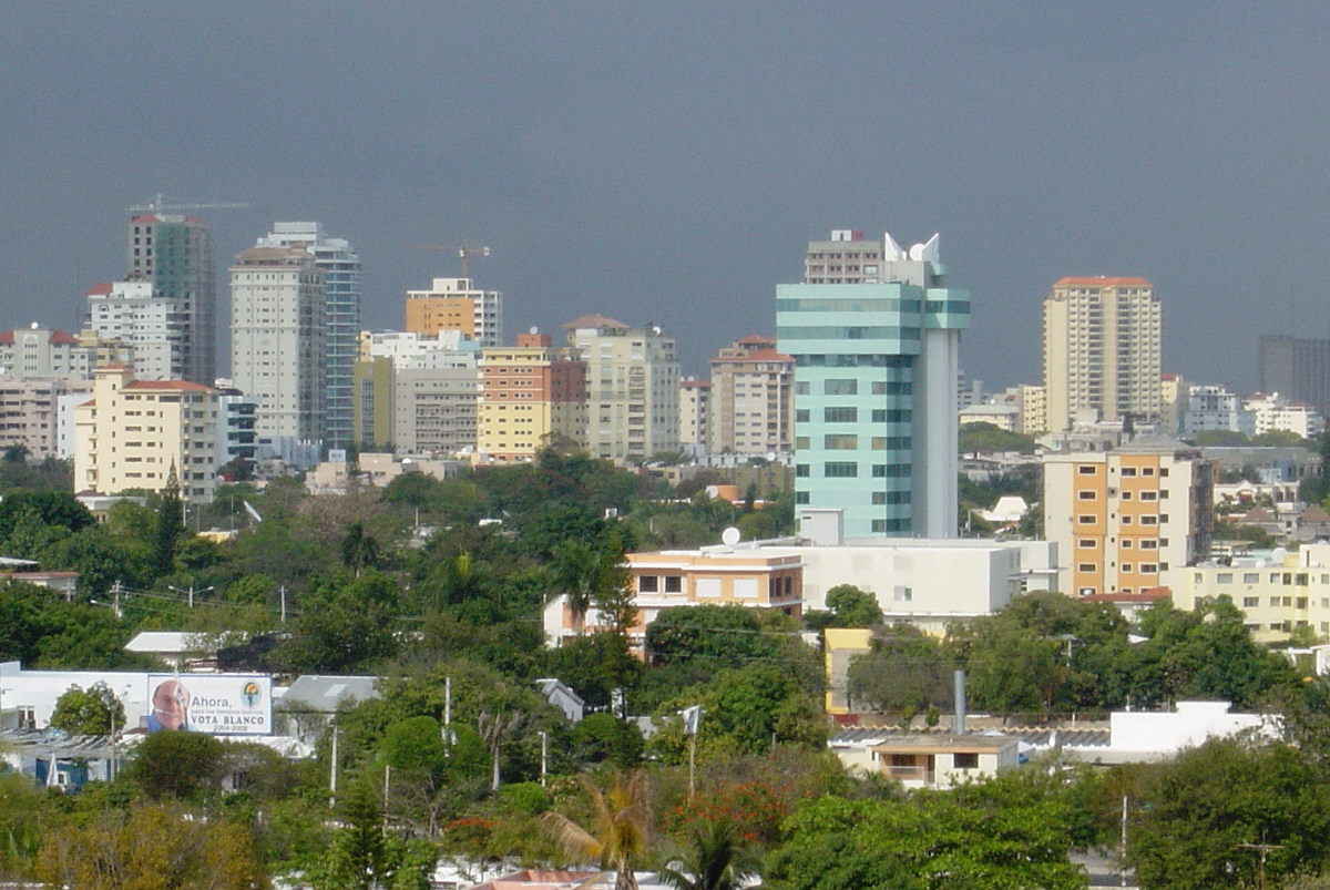 A view of Santo Domingo Skyline, biggest city of the caribbean.